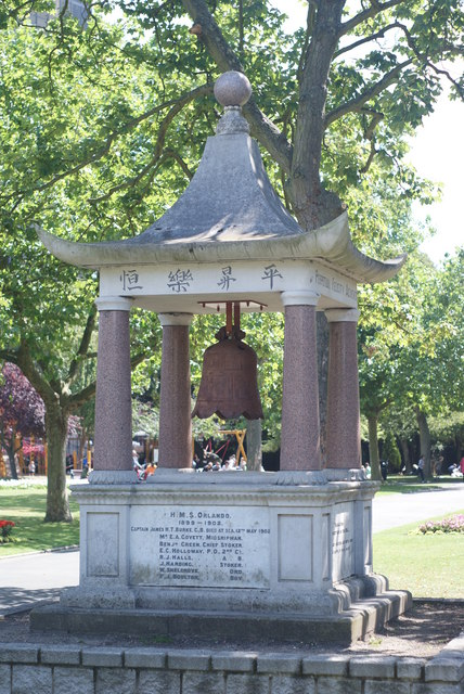 Memorial to HMS Orlando, Victoria Park, Portsmouth The most eye-catching of all the memorials in Victoria Park.